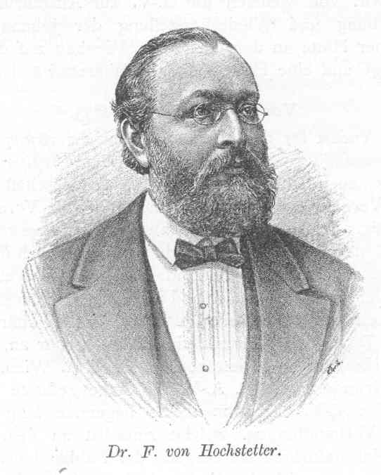 Scan from a historic book 1894